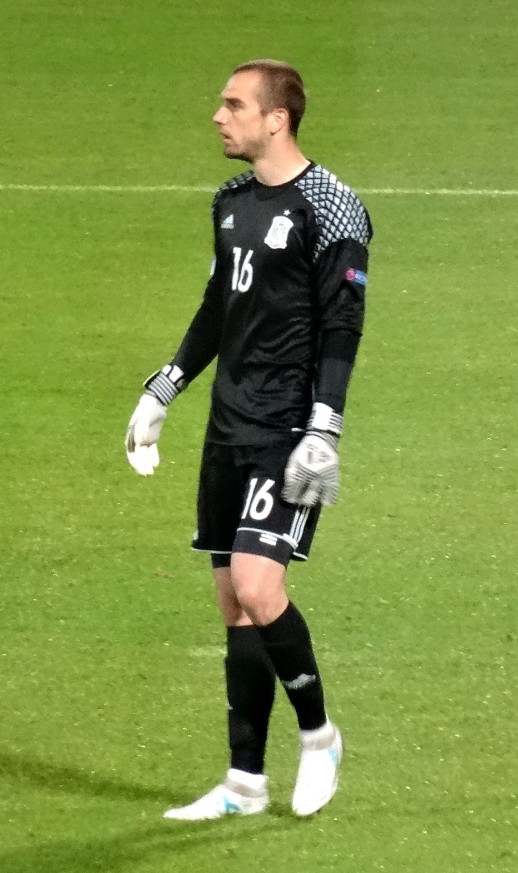 UEFA European U-21 Championship Poland 2017. Group B Spain - Serbia (1:0), Zdzisław Krzyszkowiak Stadium in Bydgoszcz